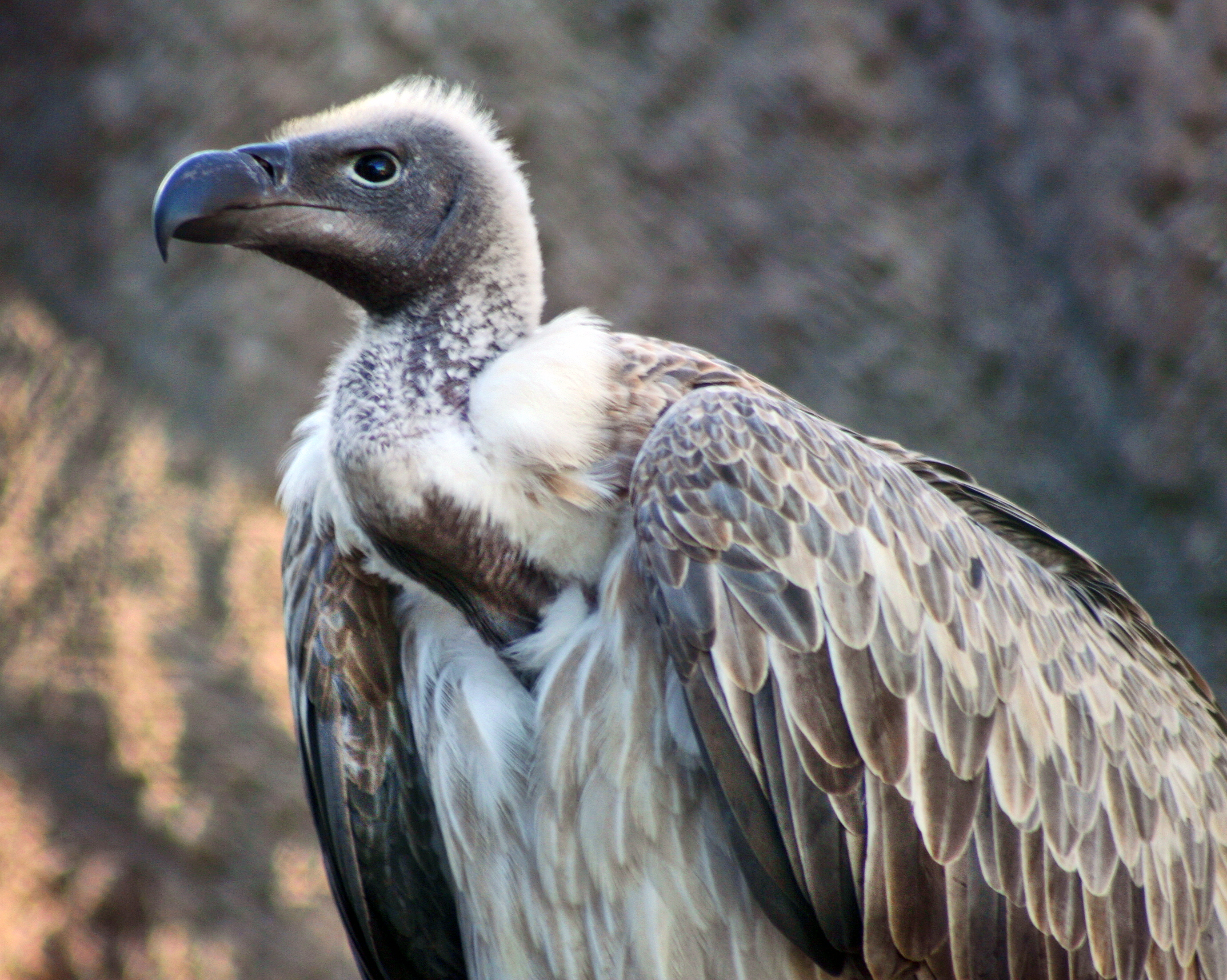 The White-backed Vulture, Gyps africanus, is an Old World vulture in the family Accipitridae, which also includes eagles, kites, buzzards and hawks. It is closely related to the European Griffon Vulture, G. fulvus. Sometimes it is called African White-backed Vulture to distinguish it from the Oriental White-backed Vulture ? nowadays usually called Indian White-rumped Vulture ? to which it was formerly believed to be closely related. The White-backed Vulture is a typical vulture, with only down feathers on the head and neck, very broad wings and short tail feathers. It has a white neck ruff. The adult?s whitish back contrasts with the otherwise dark plumage. Juveniles are largely dark. This is a medium-sized vulture; its body mass is 4.2 to 7.2 kilograms (9.3?16 lb), it is 94 cm (37 in) long and has a 218 cm (86 in) wingspan. Like other vultures it is a scavenger, feeding mostly from carcasses of animals which it finds by soaring over savannah and around human habitation. It often moves in flocks. It breeds in trees on the savannah of west and east Africa, laying one egg. The population is mostly resident.